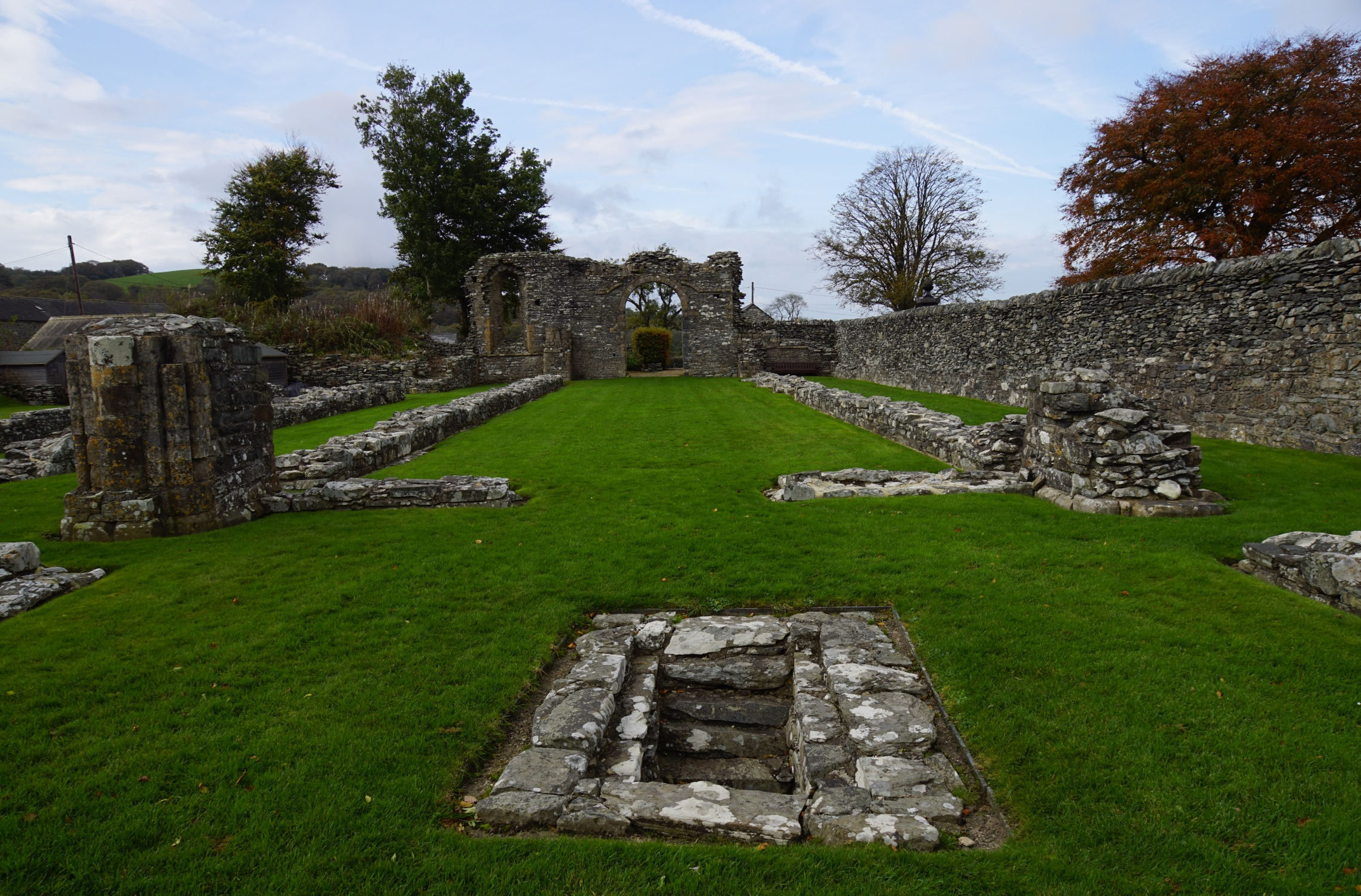 Strata Florida Abbey, Wales. In church looking west towards the nave from the choir.